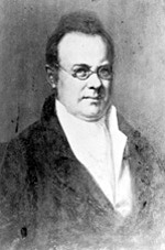 Portrait of Senator Christopher Ellery of Rhode Island